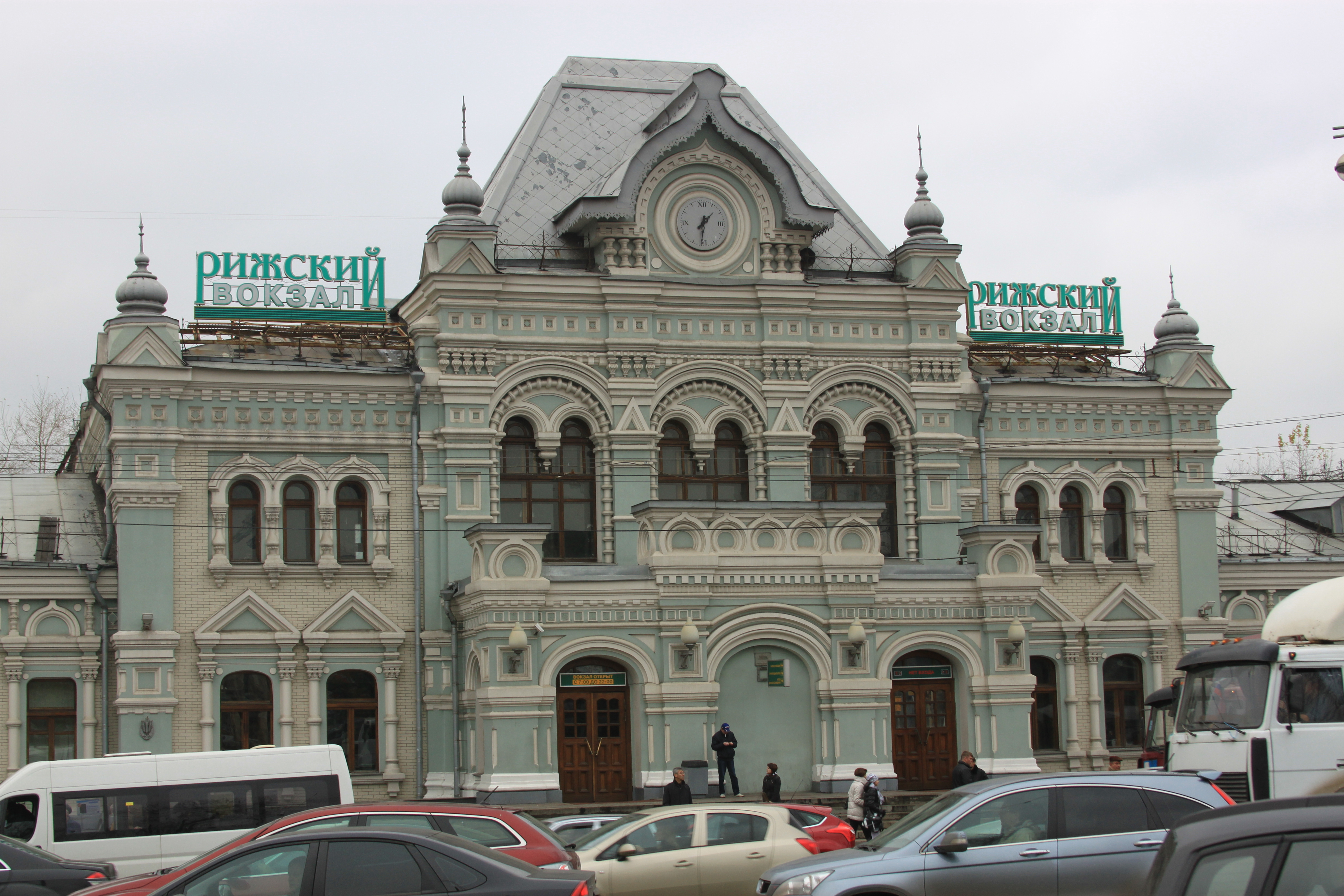 Russia, Moscow, Rizhsky Rail Terminal, Rizhsky vokzal, Россия, Москва, Рижский вокзал, Рижская площадь 1